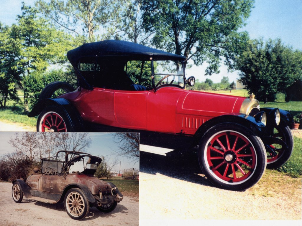 Photos taken by Lloyd Apperson of an Apperson "Chummy Roadster" restored by his brother Louie Floyd Apperson.